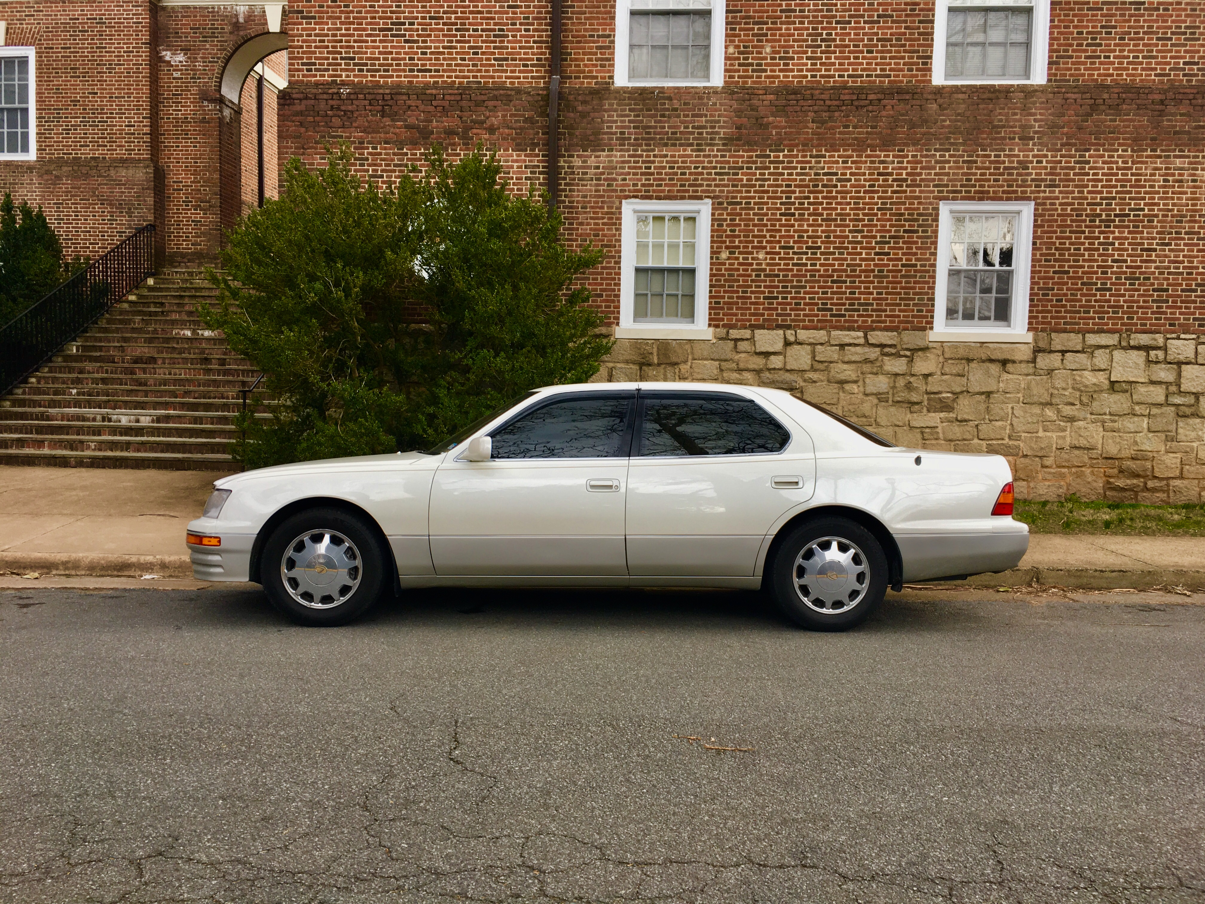 Stock form, pictured with chrome rims & aftermarket rain guards.